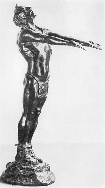 Nessa Cohen, Sunrise, bronze, exhibited at the 1913 Armory Show